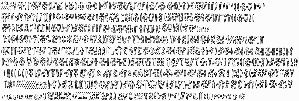 Barthel's tracing of rongorongo tablet E, recto